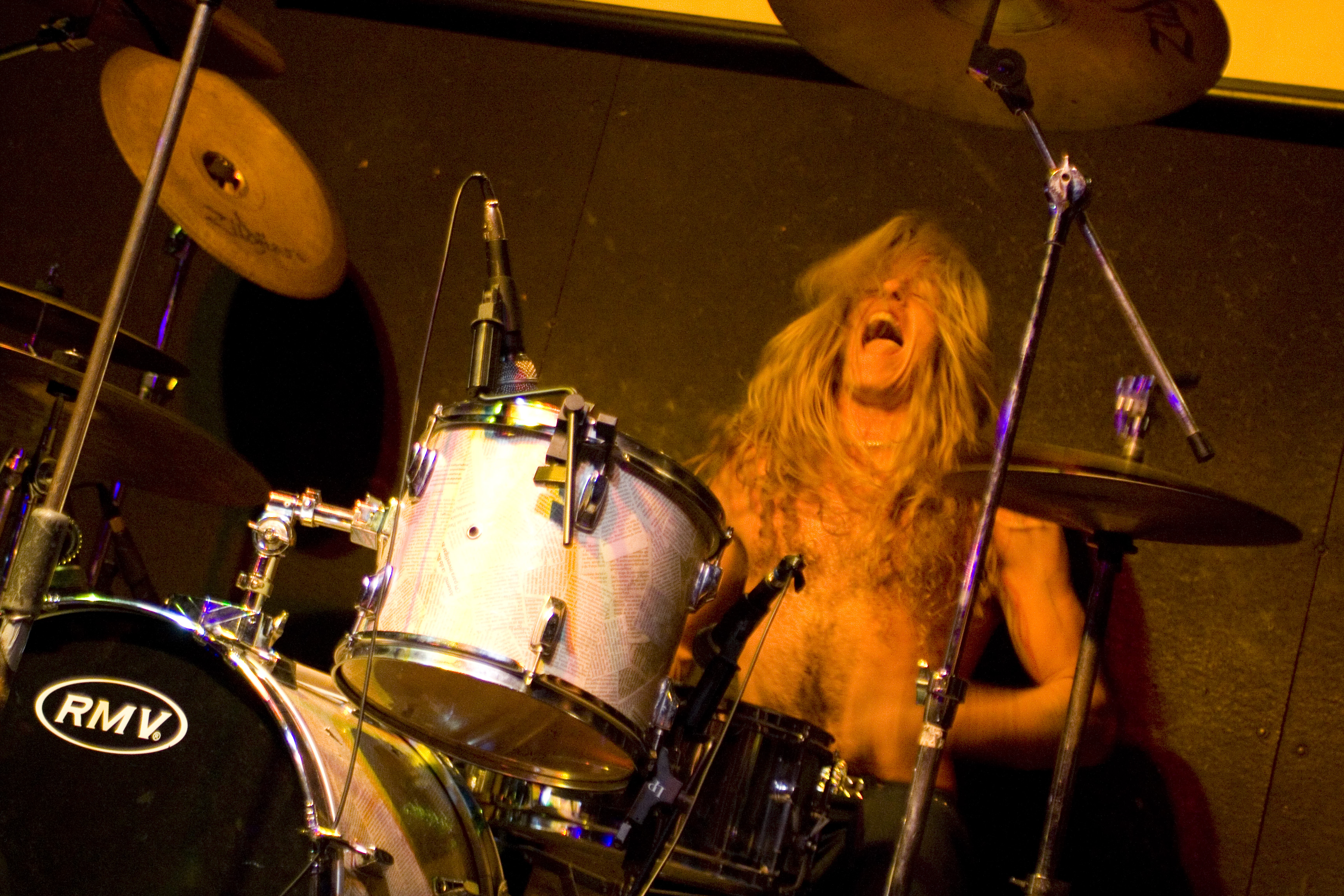 Drummer Danny Needham live with Tony Martin.